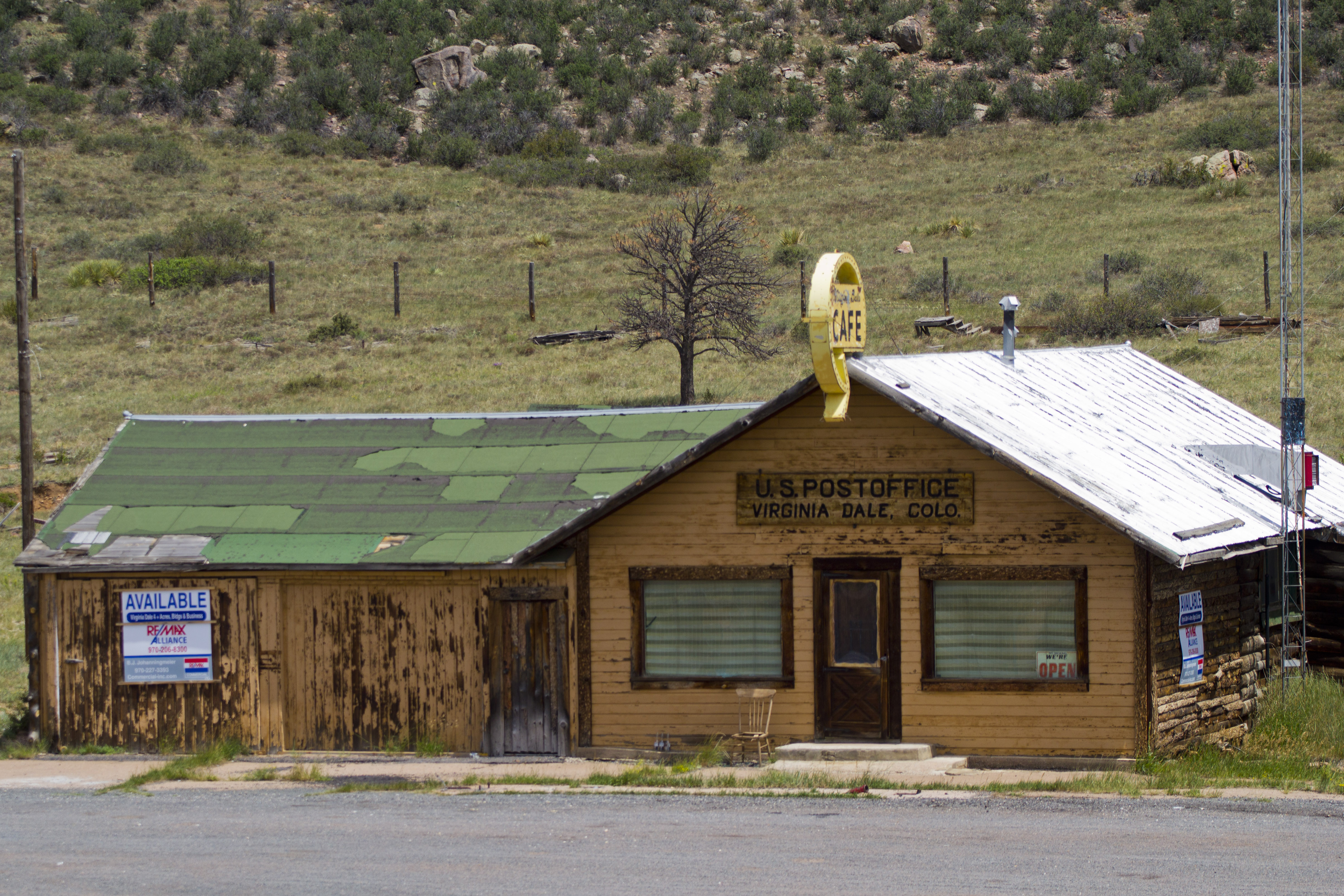 Virginia Dale, Colorado, Cafe and Post Office Building (photo taken July 26, 2012) by Chris 'Xenon' Hanson